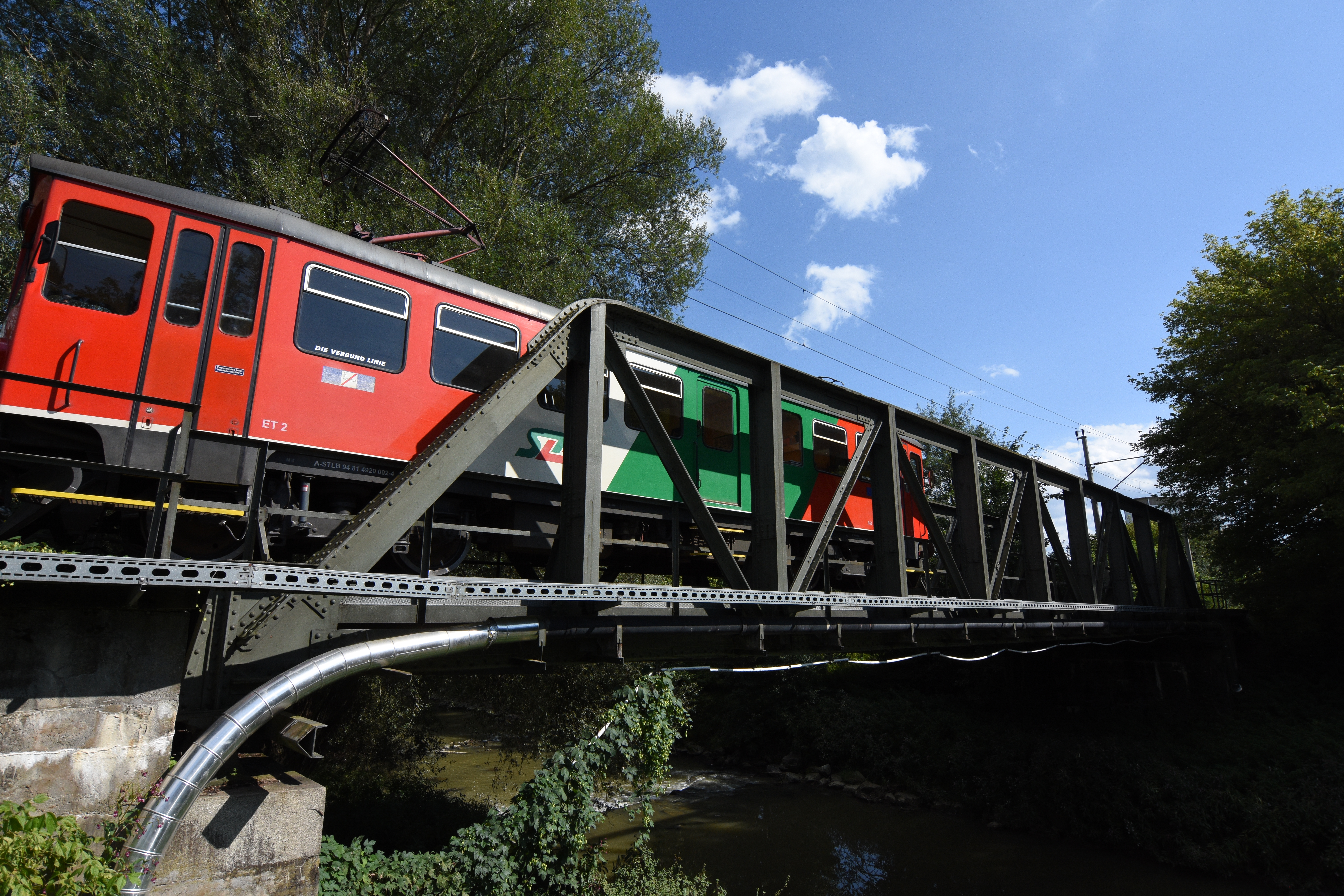 Feldbach–Bad Gleichenberg railway line, Raab River